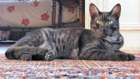 Valinor de Bélénus, mau égyptien black smoke Mis à disposition de Wikipédia par Didier Hallépée et l'Association Internationale du Mau Egyptien